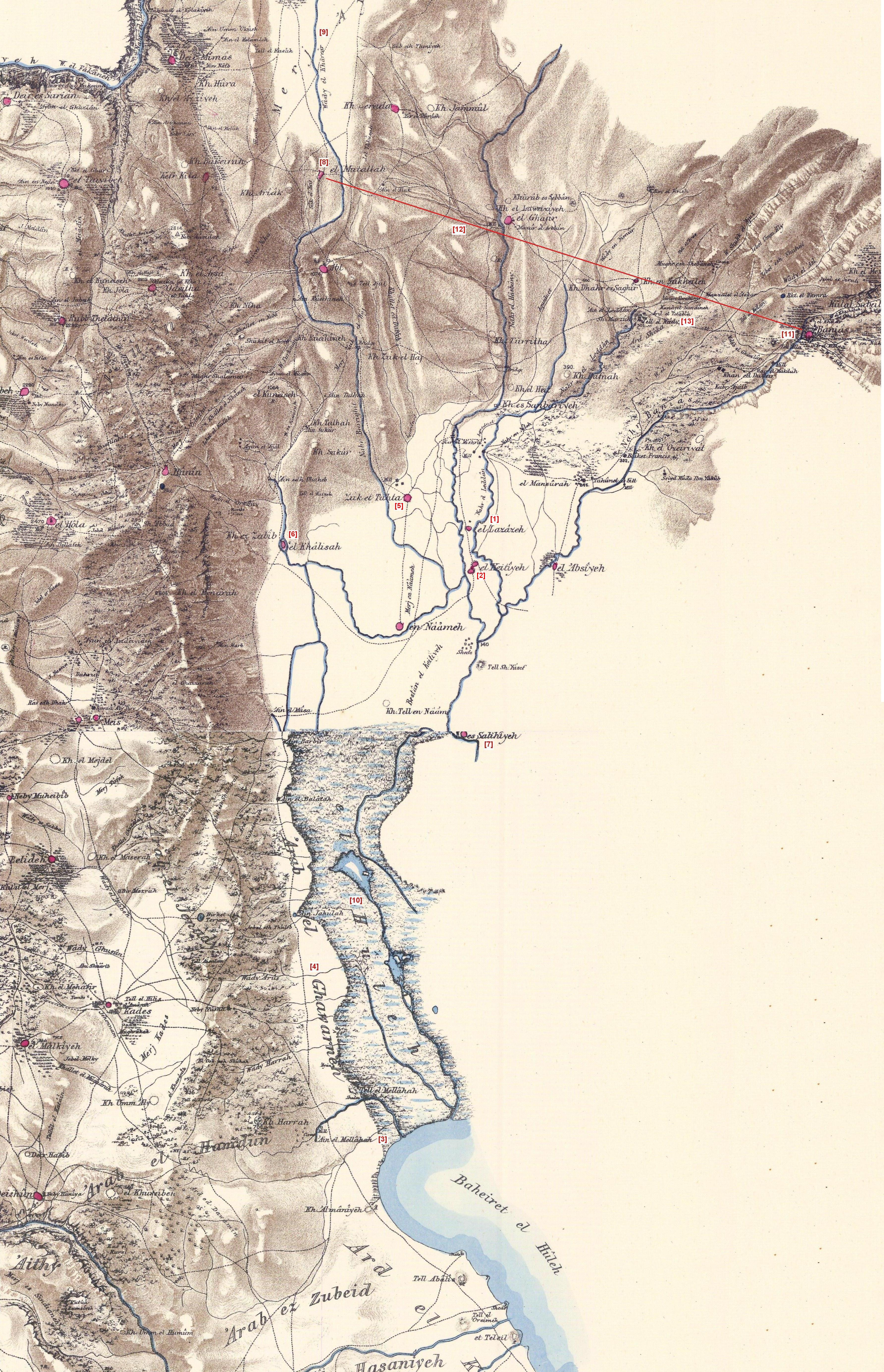 Huleh Valley, pointers to sites. Rework of a 1880 PEF map.